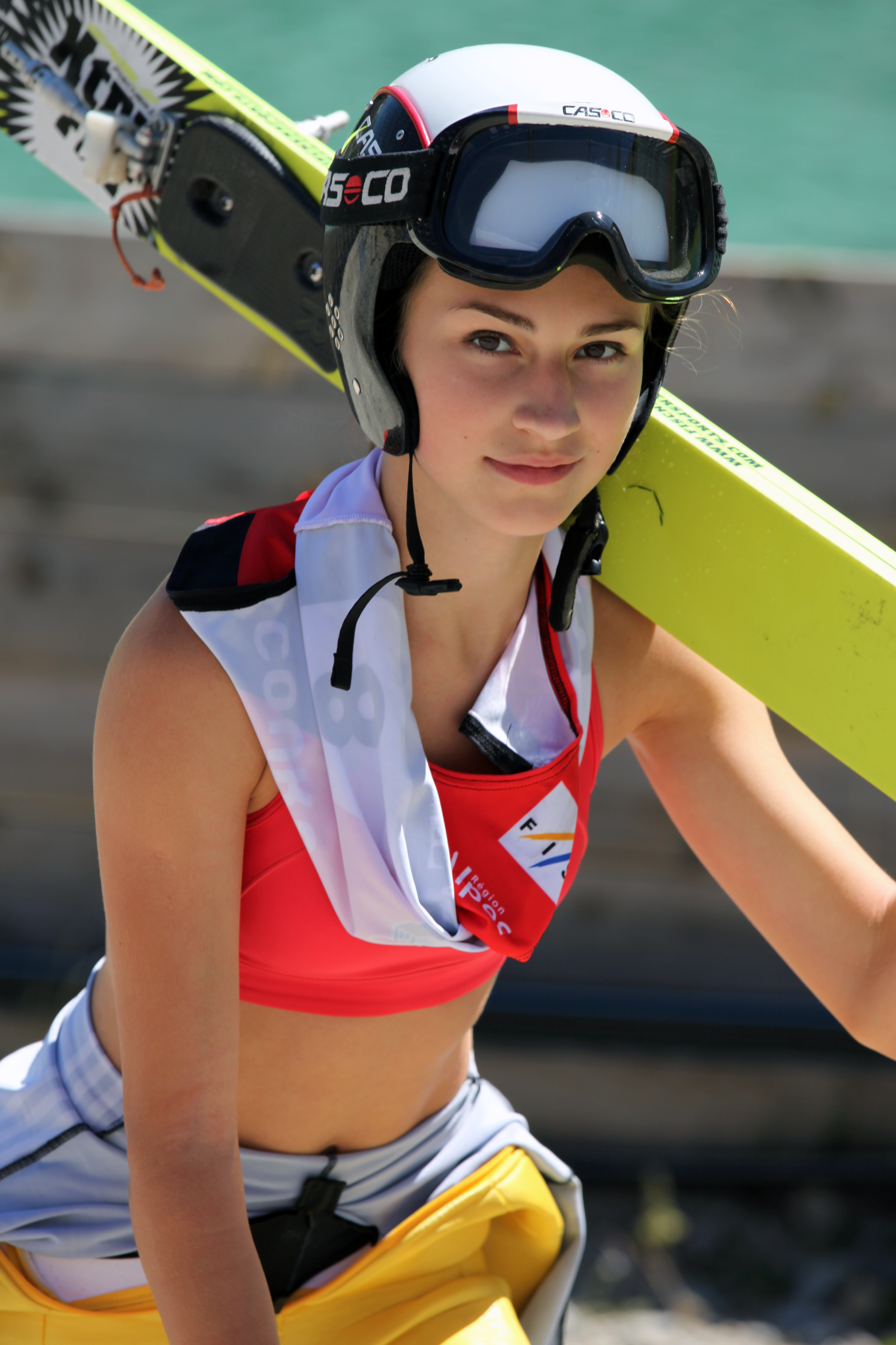 Daria Grushina (Дарья Грушина) at the Summer Grand Prix ski jumping event in Courchevel.